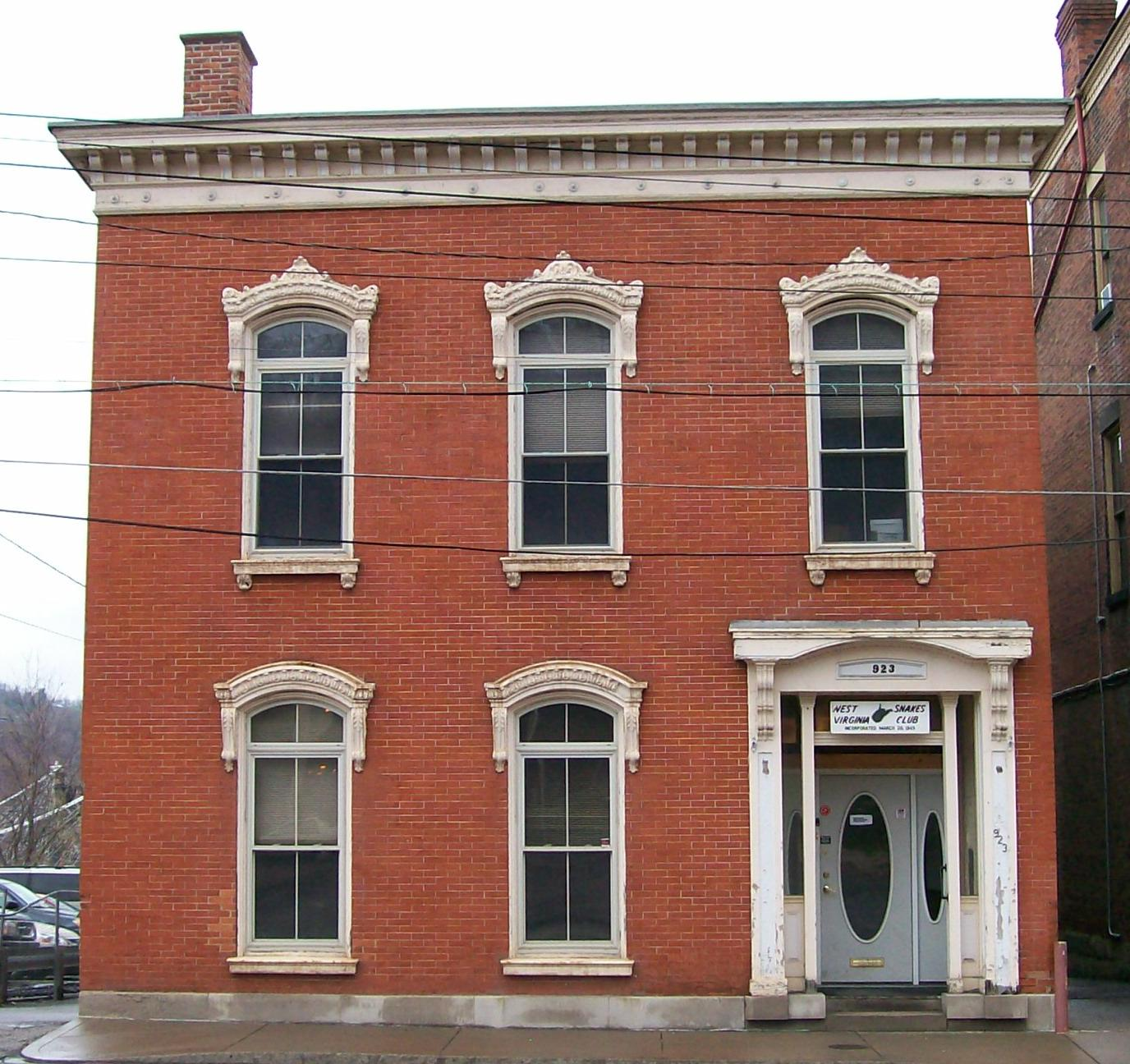 The Robert C. Woods House at 923 N. Main Street in Wheeling, West Virginia. The eastern facade is photographed from Main Street. The house was placed on the NRHP. Taken on 2010-03-28.